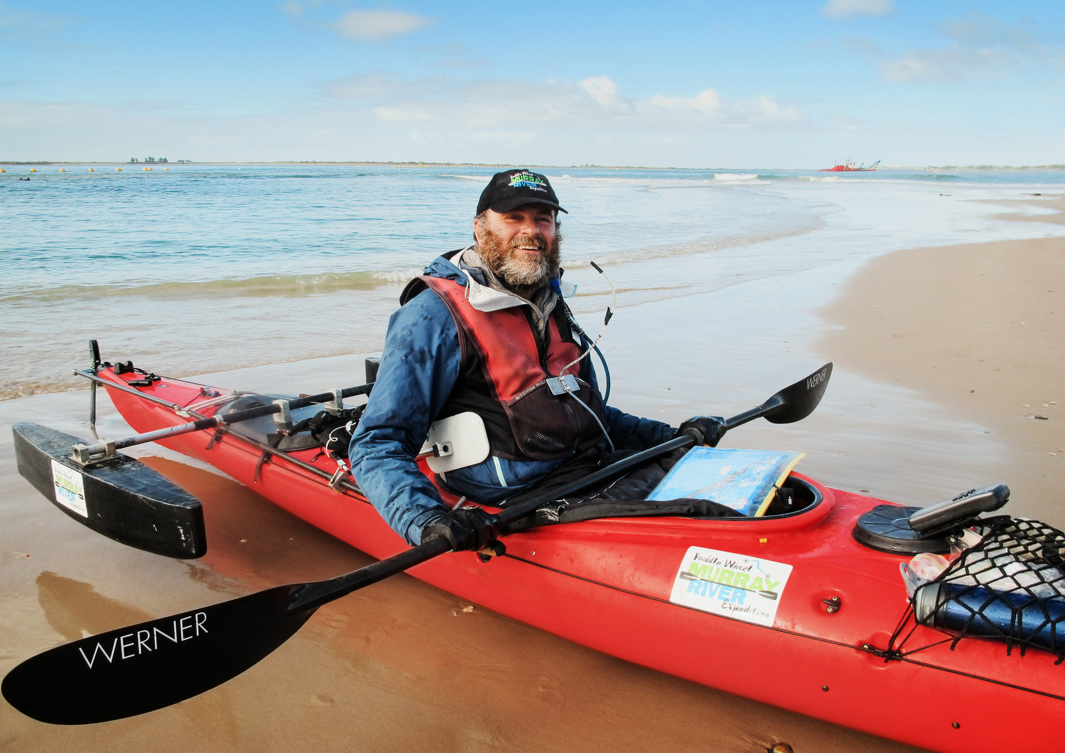 In 2016, quadriplegic adventurer Dave Jacka completes his kayaking expedition down Australia's longest river, the Murray River, arriving at the river's outlet, near Goolwa on South Australia's coast. The expedition covered 2,226 km in 89 days.